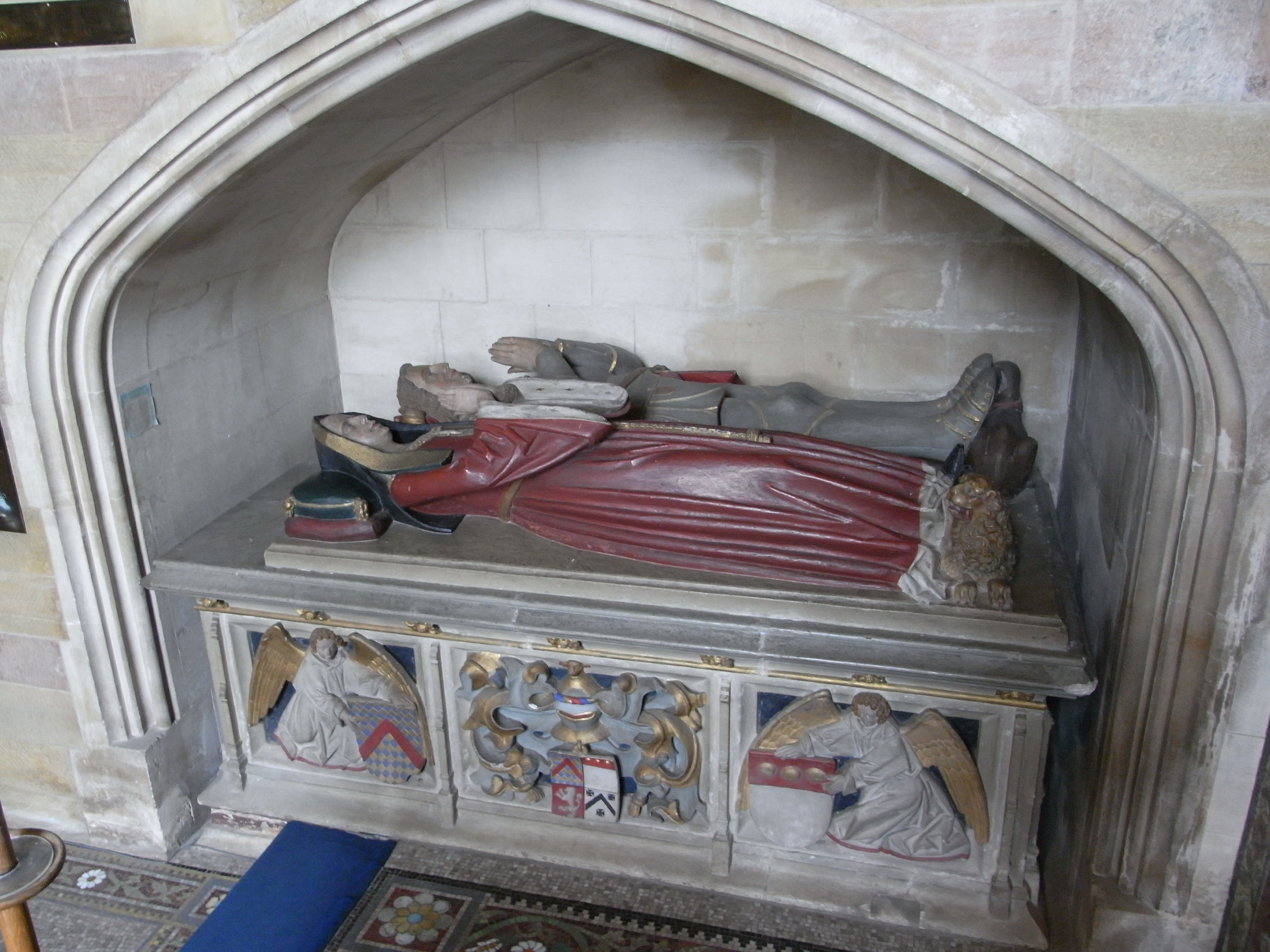 The tomb of Sir Edmund Gorges (died 1512) and his wife Lady Anne Howard in All Saints Church, Wraxall, Somerset, England, UK.